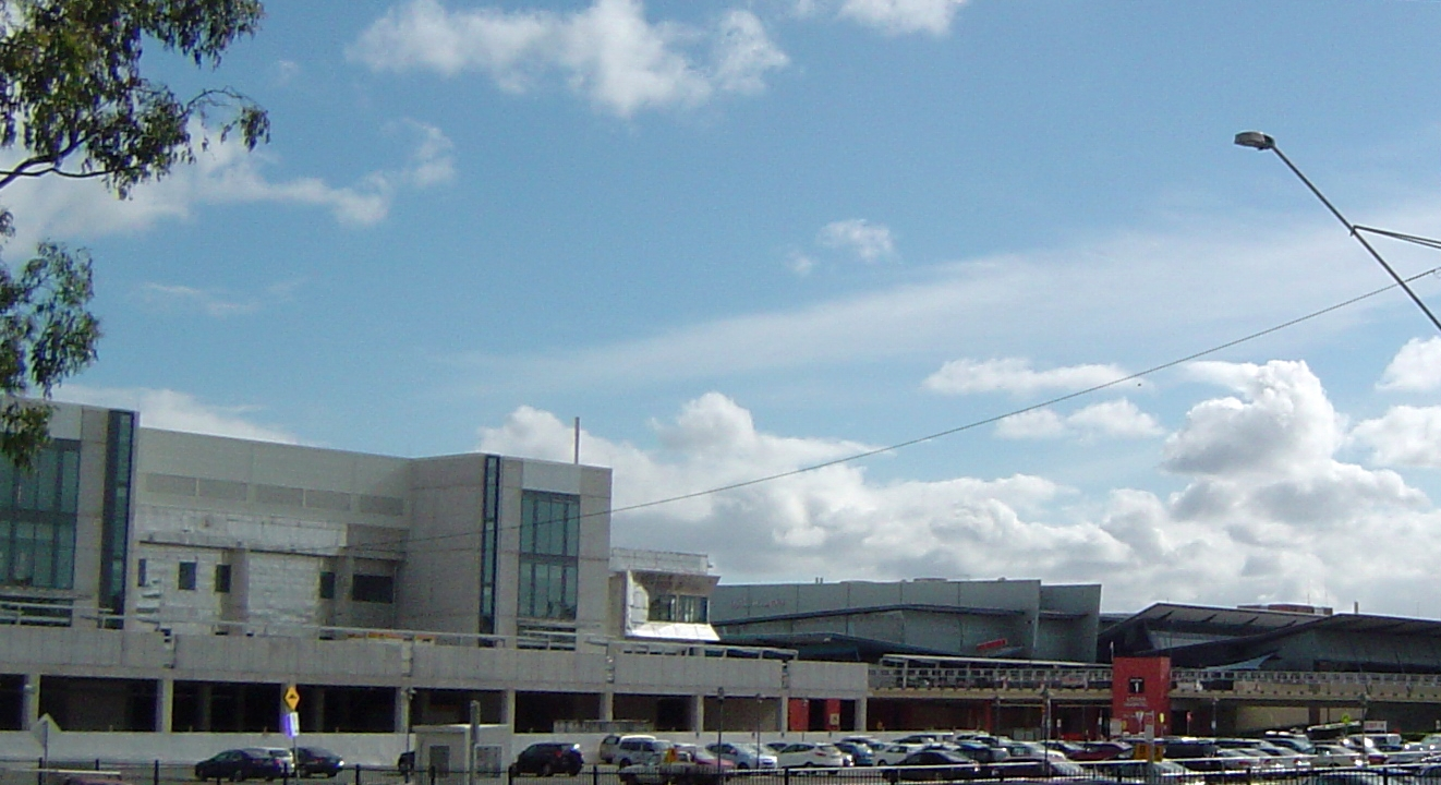 Photo of Logan Hospital Meadowbrook, Logan City, Queensland, Australia. Left side of building is under-construction.